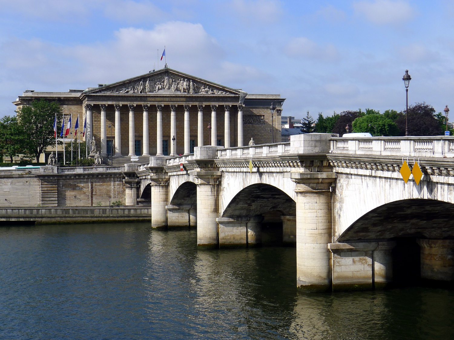 Bourbon palace and Concorde bridge - Paris